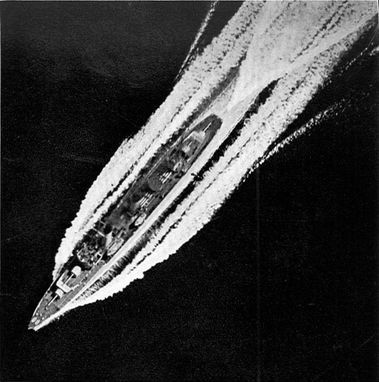 Studies in Wave Formation. Two aerial views of a destroyer (the Royal Yugoslav Flotilla Leader Dubrovnik) running at 37 knots